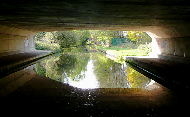 Under the motorway near Penkridge, Staffordshire The Staffordshire and Worcestershire Canal was opened in 1772. The M6 motorway here was completed in 1968.